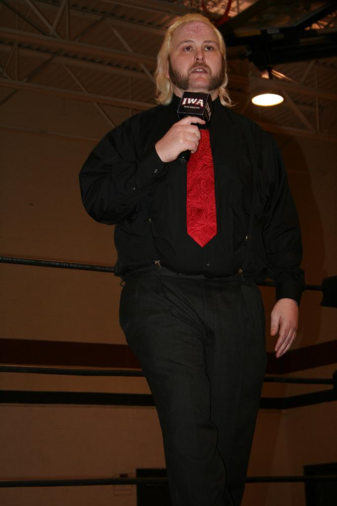 Ian Rotten speaking at IWA-MS's 500th show in Joliet Illinois, April 2008